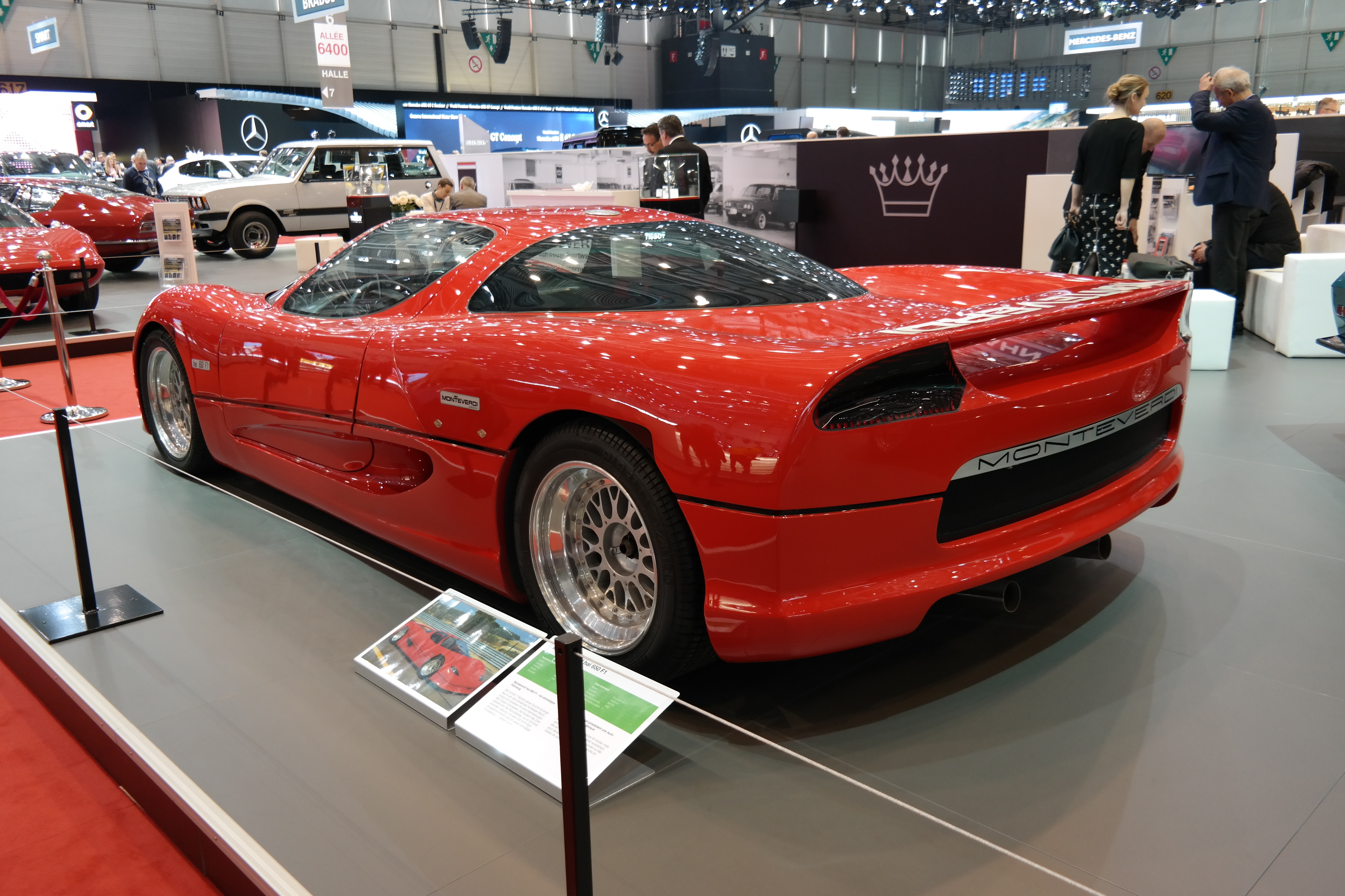 Geneva Motor Show 2017 (photo taken on the first press day)